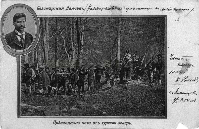 Postcard with Gotse Delchev and IMARO cheta